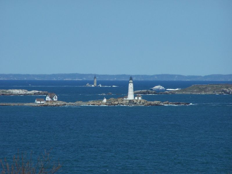 two lighthouses and ferry from Provincetown